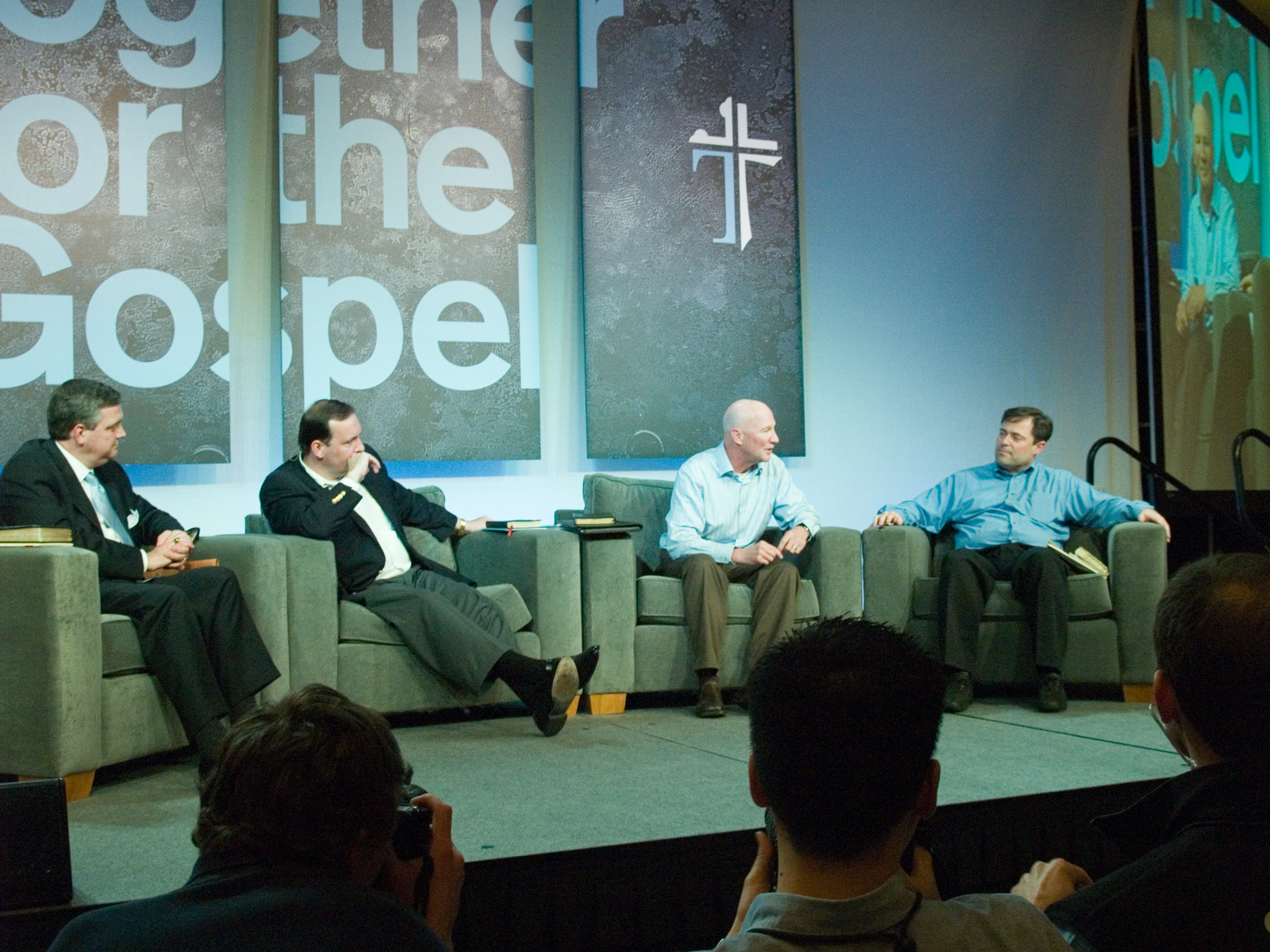 The Conference "Together for the Gospel" - Panel Discussion, April 2006